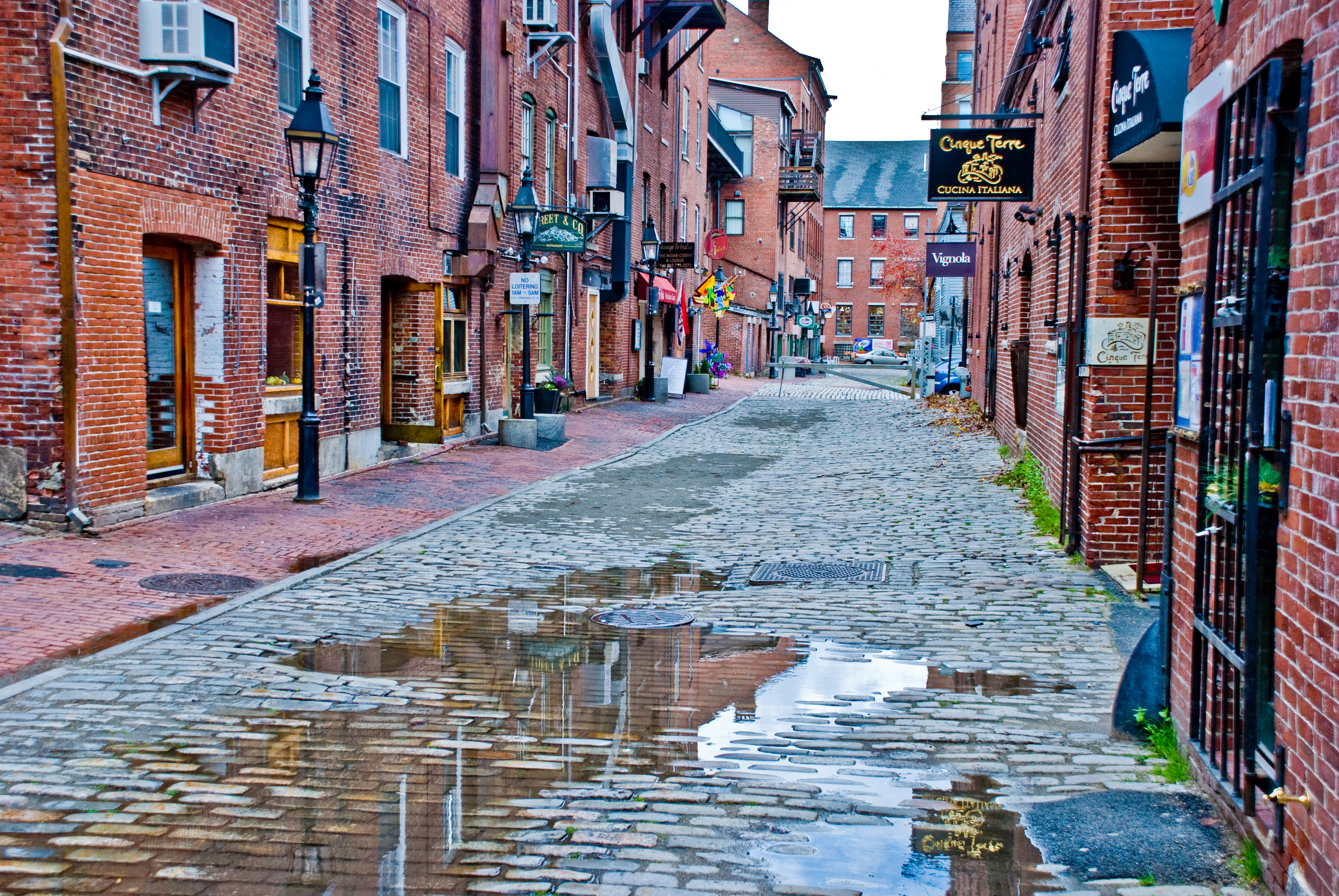 Old Port in Portland, Maine courtesy of PhilipC's photostream